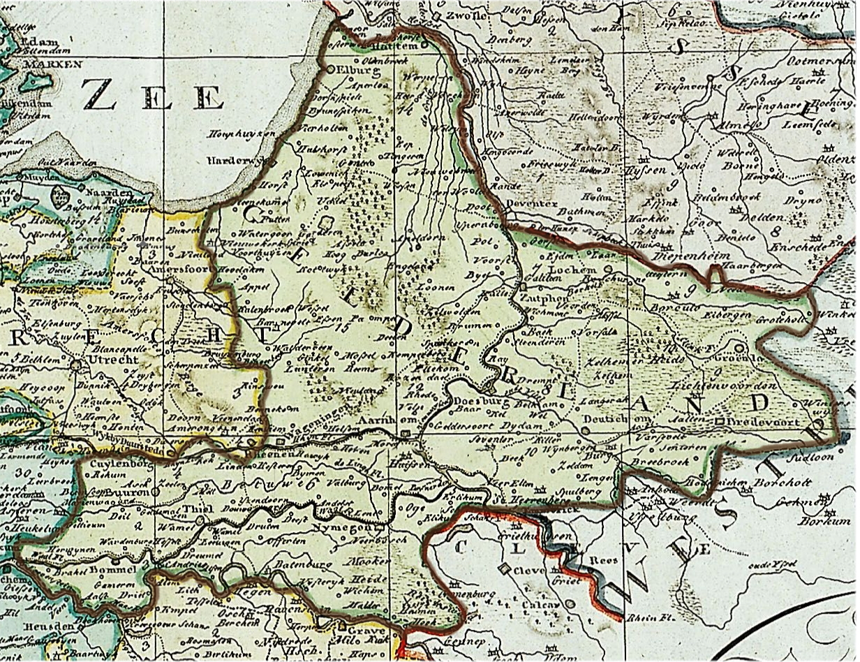 Batavian Republiek, departement Gelderland